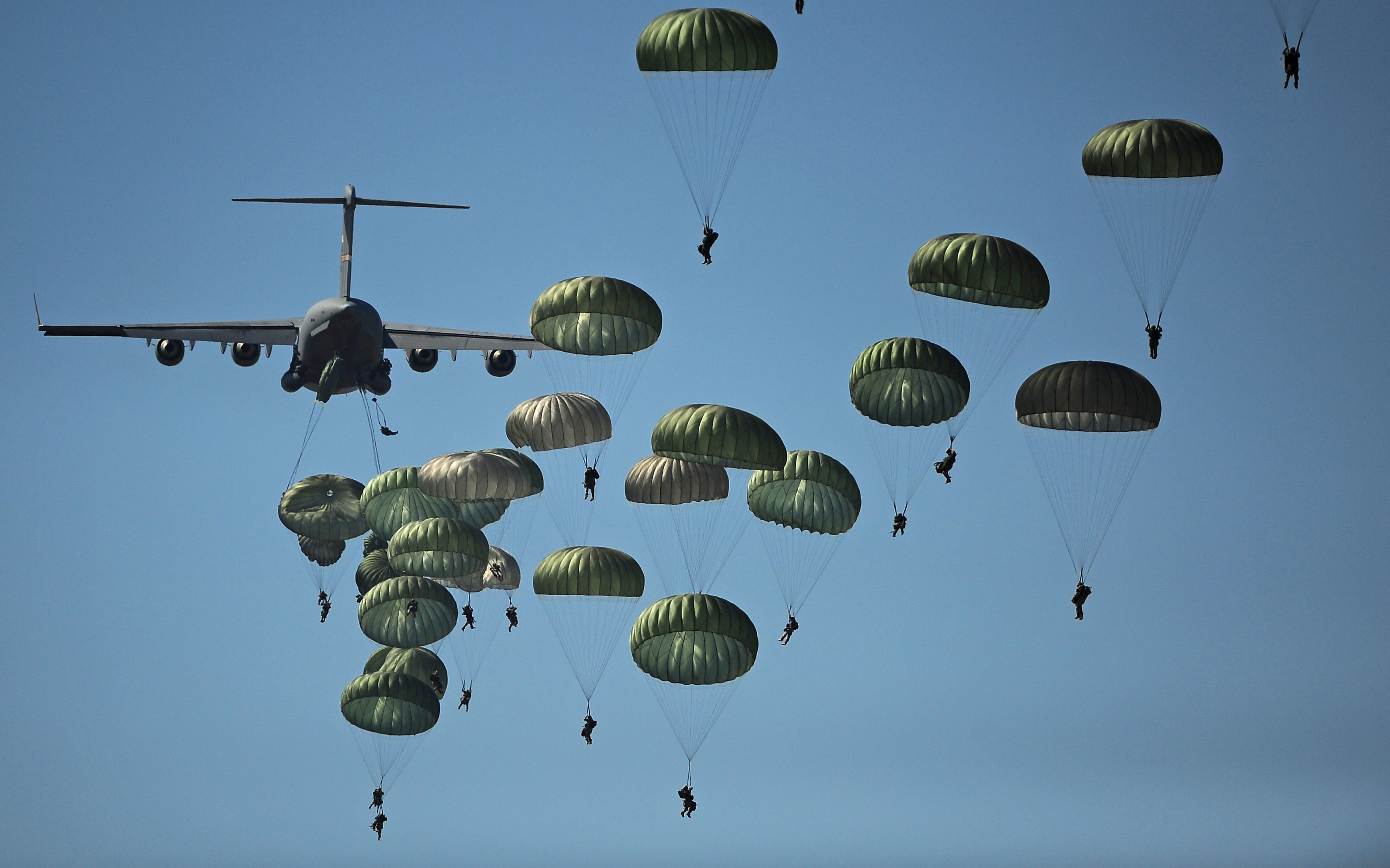 U.S. Army paratroopers from the 82nd Airborne Division descend to the ground after jumping out of a C-17 Globemaster III aircraft over drop zone Sicily during Joint Operations Access Exercise at Ft. Bragg, N.C., on Sept. 10, 2011. The one-week exercise prepares the Air Force and the Army to respond to worldwide crises and contingencies.